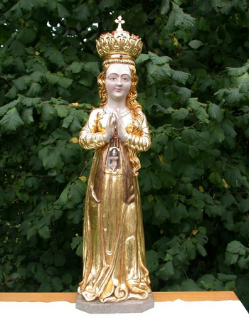 "Mater gravida"